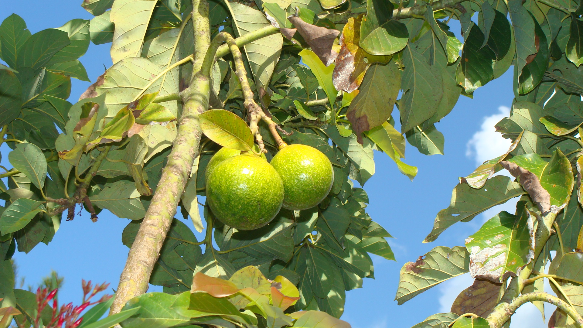 Tree and fruits of avocado, Caracas, Venezuela